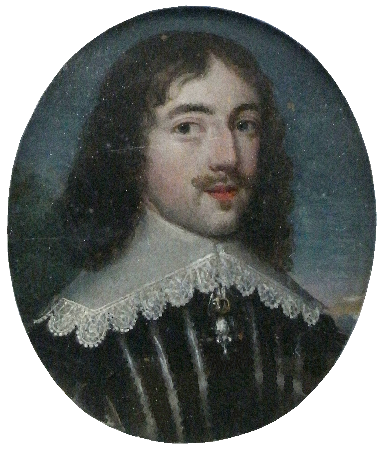 Detail of a portrait of Hugh Squier (1625-1710), benefactor of South Molton, who founded a Free Scool in South Molton in 1684. By unknown artist. Purchased in 1796 by South Molton Town Council from a certain Mrs May, and today hangs from the chain of office of the Mayor of South Molton. In 1799 a large oil on canvas copy (74cm * 60cm) was made by a certain Mr Whitby and now hangs in the Mayor's Parlour of the Guildhall, South Molton. In 1910 a stone bust of Hugh Squier based on either the miniature or the copy painting was placed in an aedicule on the facade iof the Guildhall, where it remains today. (Source: Morey, Gertrude, Hugh Squier of South Molton, 1625-1710; A Note of his Founding of the Free School in South Molton, his Will and his Benefactions to the Town, published in Devon Historian, Vol. 23, 1981, pp.7-11, pp.10-11)